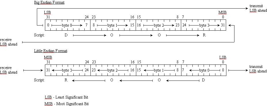 Big endia/little endian format